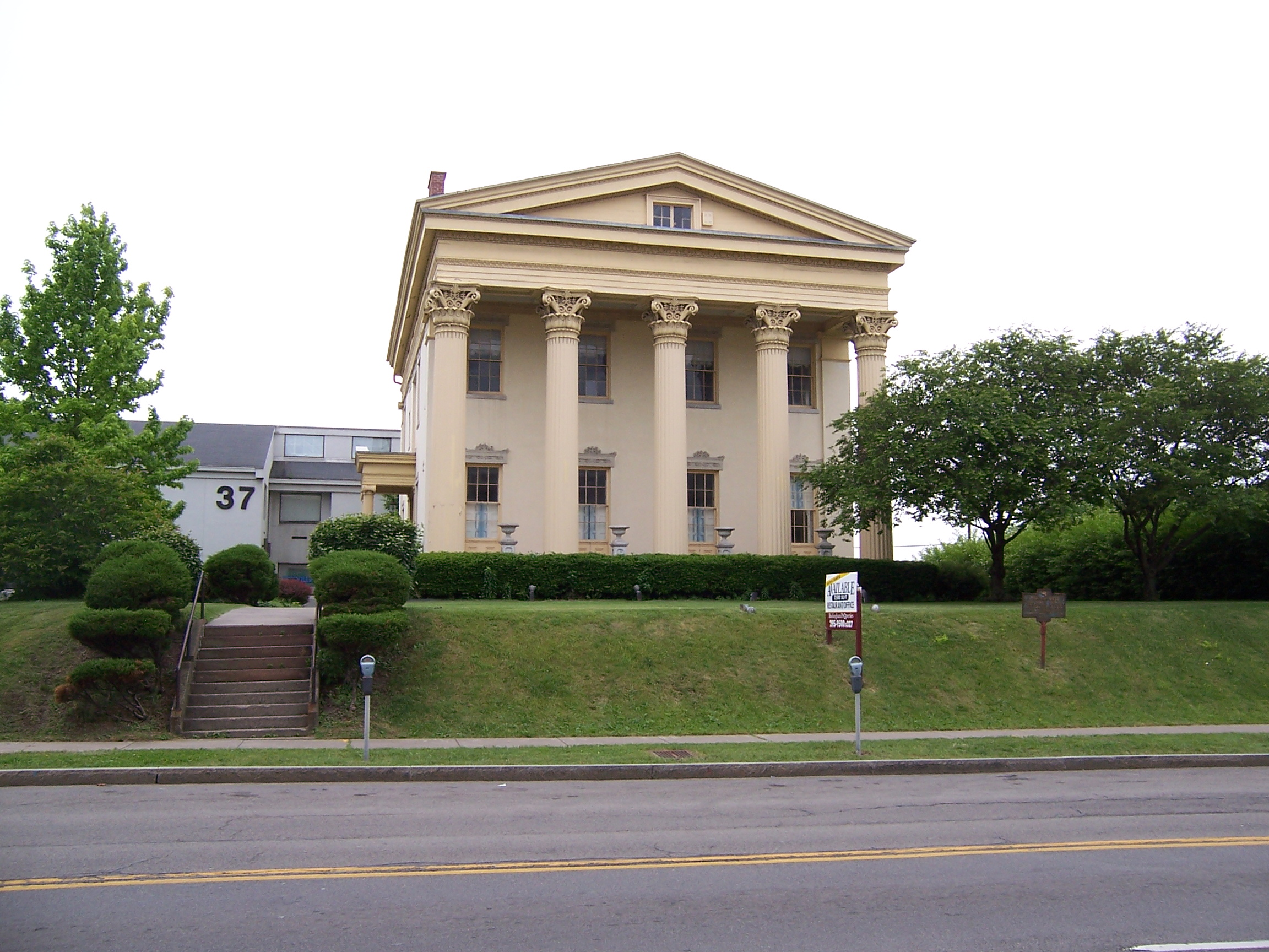 The Jonathan Child House in downtown Rochester, New York. It is listed on the National Register of Historic Places as part of the Jonathan Child House & Brewster–Burke House Historic District. Jonathan Child was Rochester's first mayor, and the son-in-law of city founder and namesake Nathaniel Rochester.